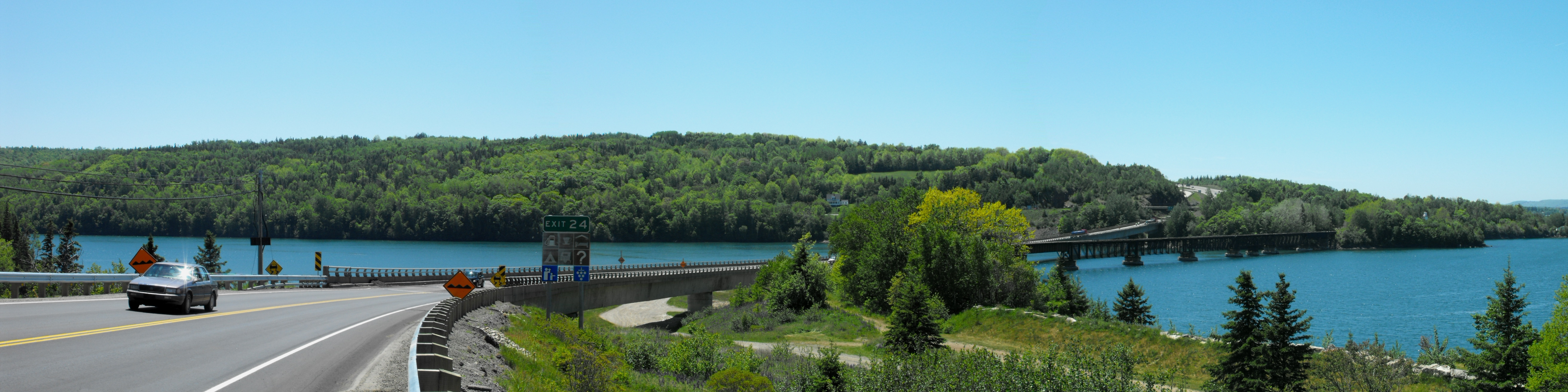 Mouth of Nova Scotia's Bear river as it passes under Nova Scotia Highway 101 and an abandoned railway bridge. The river discharges into Annapolis Basin on the right (panorama).